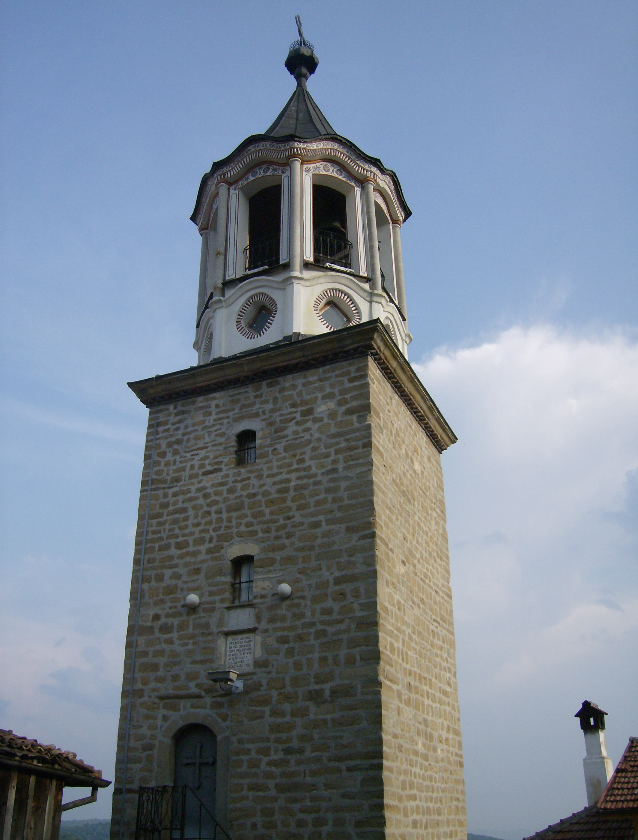 SS. Cyril and Methodius, Veliko Tarnovo